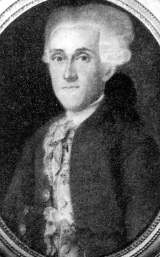 Jacques Pierre van Ockerhout de Ter Zaele (1743-1823)